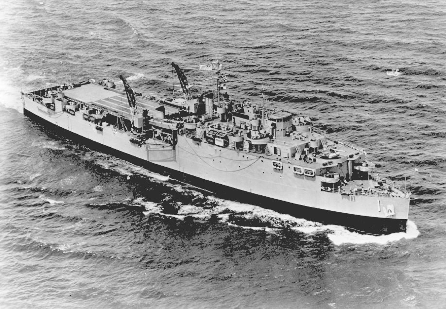 The U.S. navy dock landing ship USS Ashland (LSD-1)' underway off Cape Henry, Virginia, 20 May 1953. She has been virtually unmodified since her commissioning 10 years before.